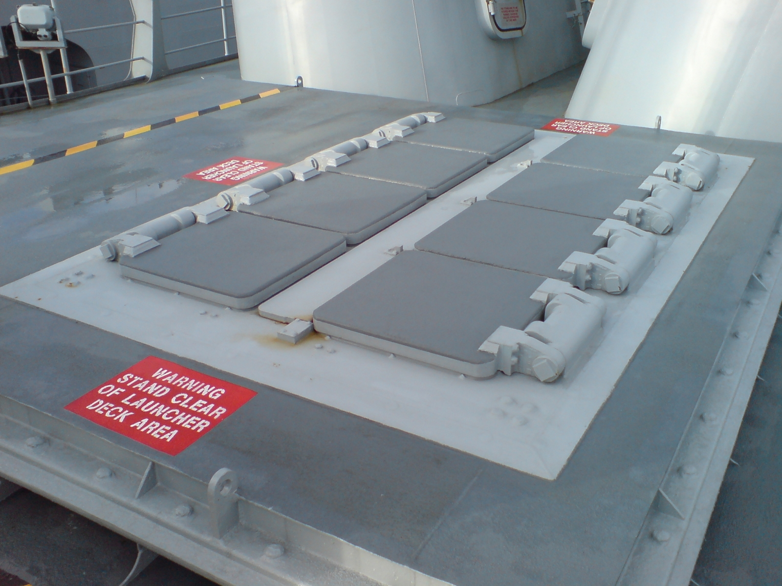 The vertical launch system of the HMNZS Te Kaha (frigate) at the Devonport Naval Base, North Shore City, Auckland, New Zealand.